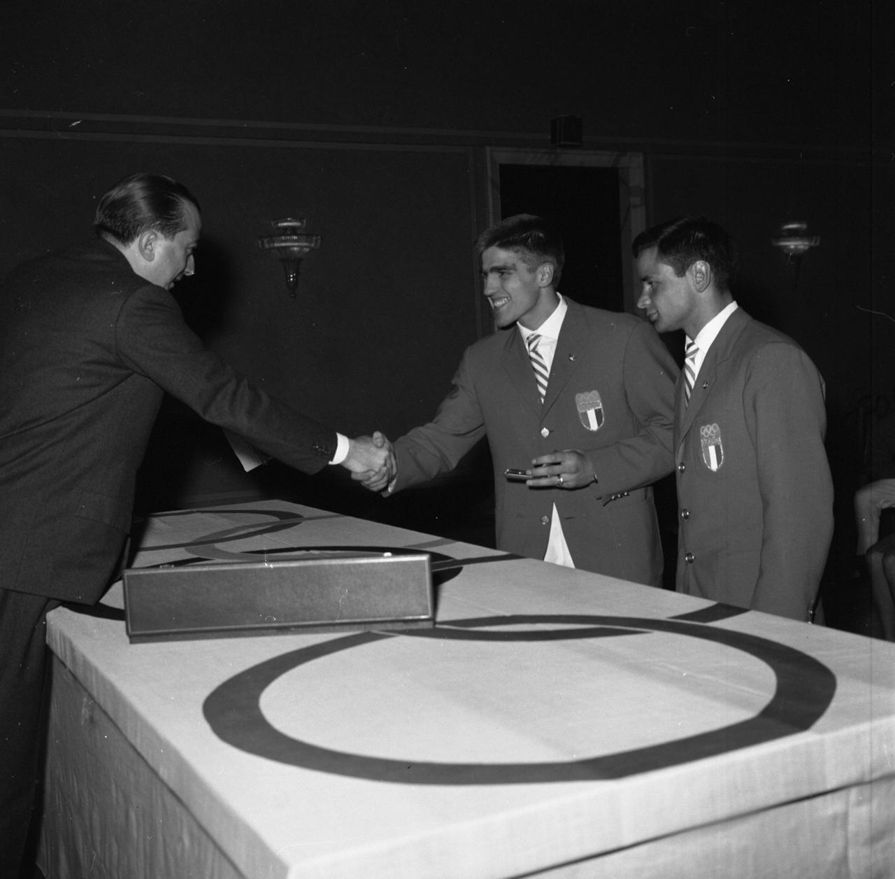 Giulio Andreotti congratulates Nino Benvenuti and Franco Musso (right) at the 1960 Olympics